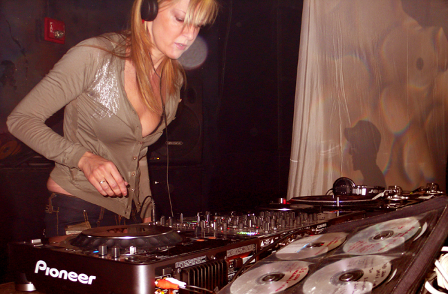 Mary Anne Hobbs, Live At Sub Swara , New York